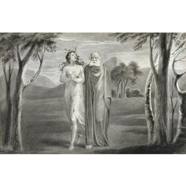 An illustration for William Blake's unpublished 1789 poem, Tiriel